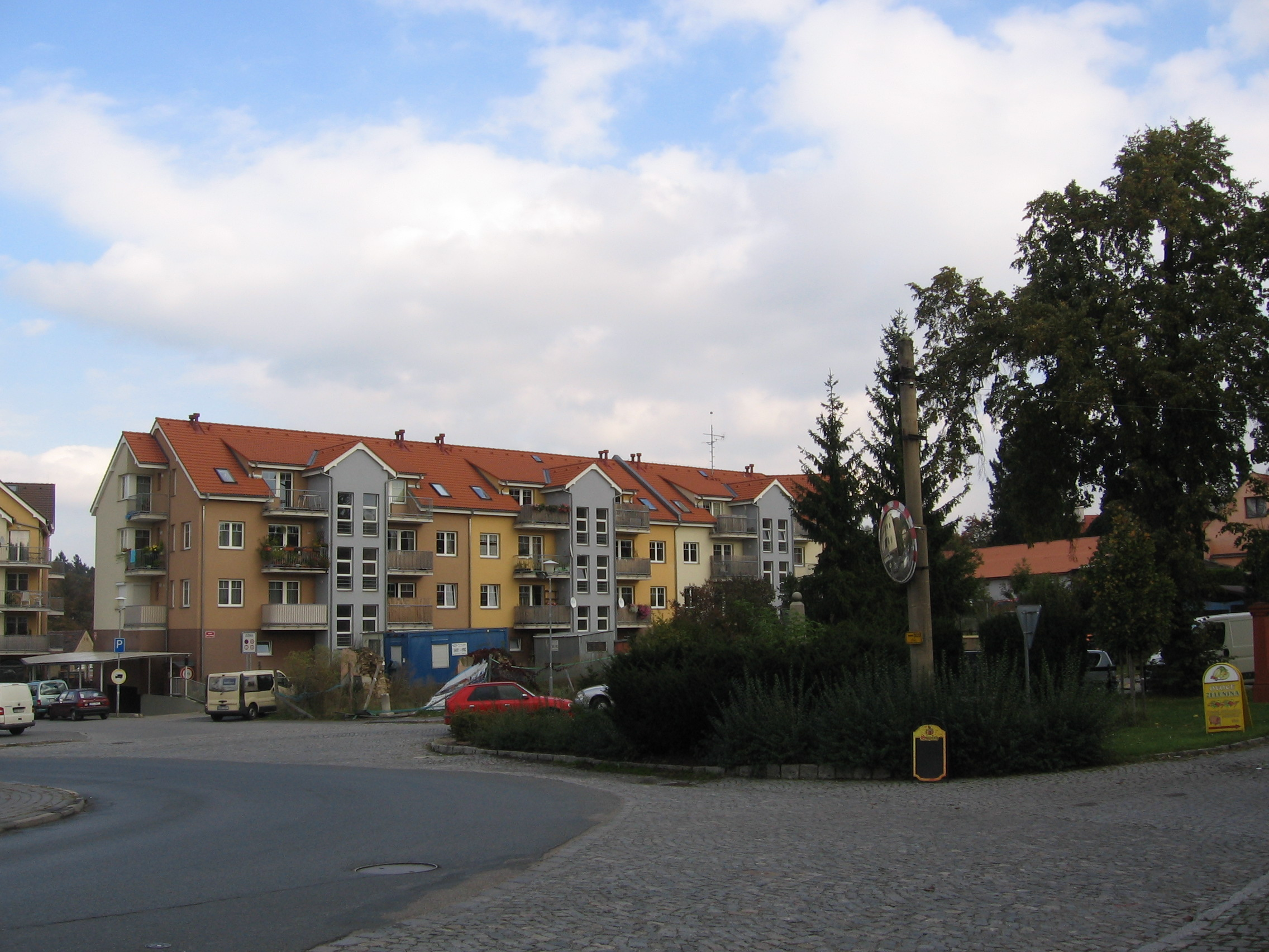 Strančice the oldest house after demolition 2010-12-31